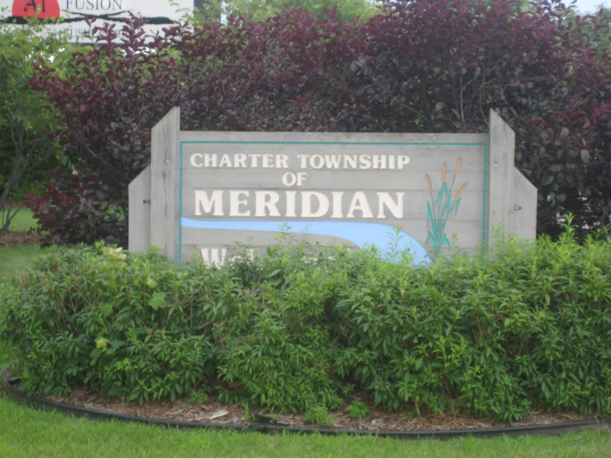 Meridian Charter Township entrance sign along eastbound M-43 (Grand River Avenue), near East Lansing city limit.